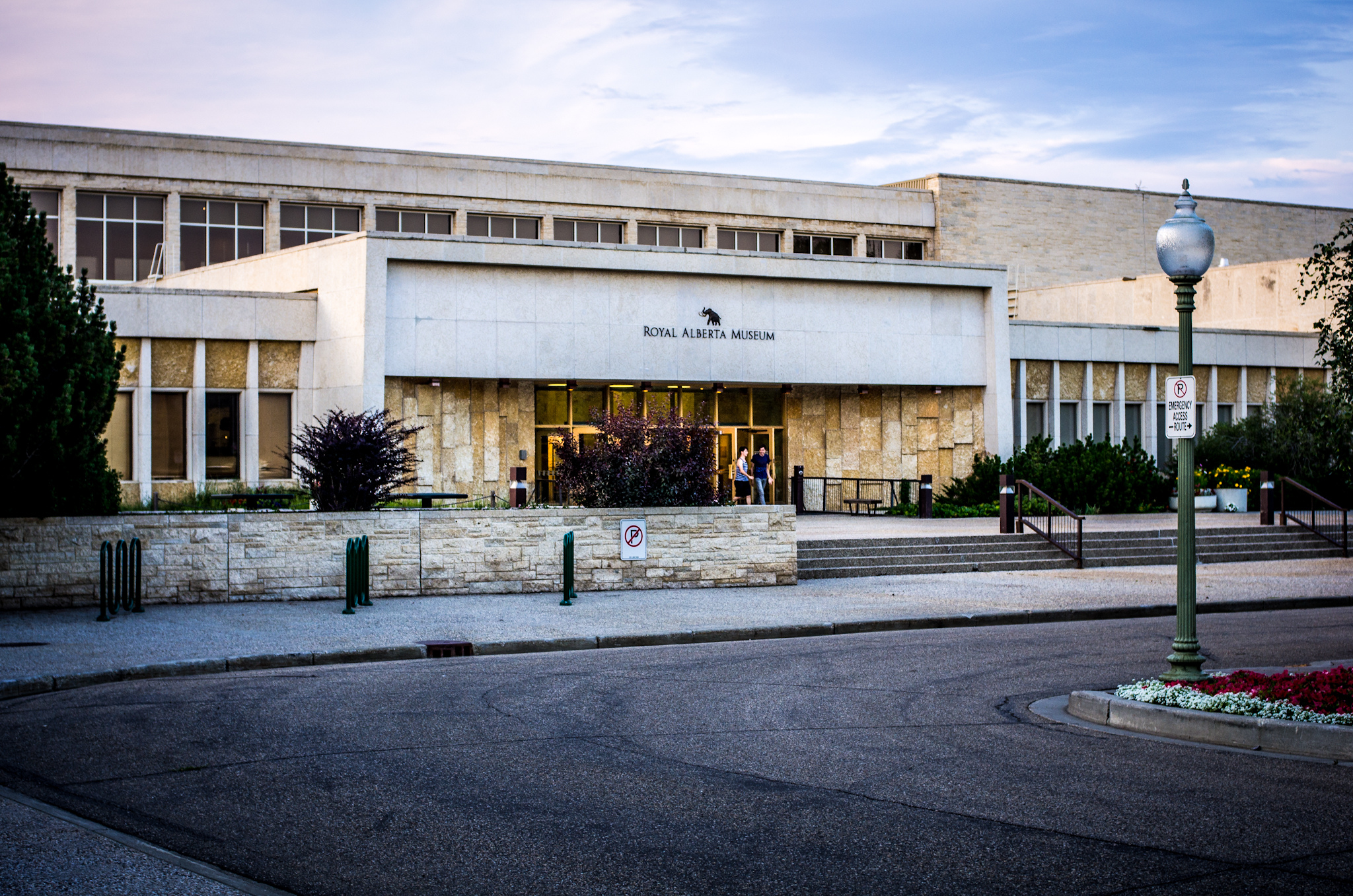 Entrance to Royal Alberta Museum